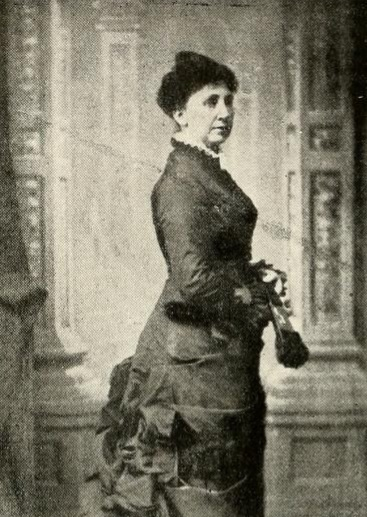 Photographic portrait of American journalist and author Mary Clemmer [Ames] Hudson (1831-1884). From American Women: Fifteen Hundred Biographies with Over 1,400 Portraits, Frances E. Willard and Mary A. Livermore, editors. Mast, Crowell & Kirkpatrick, 1897 (revised edition from 1893), vol. 1, p. 400